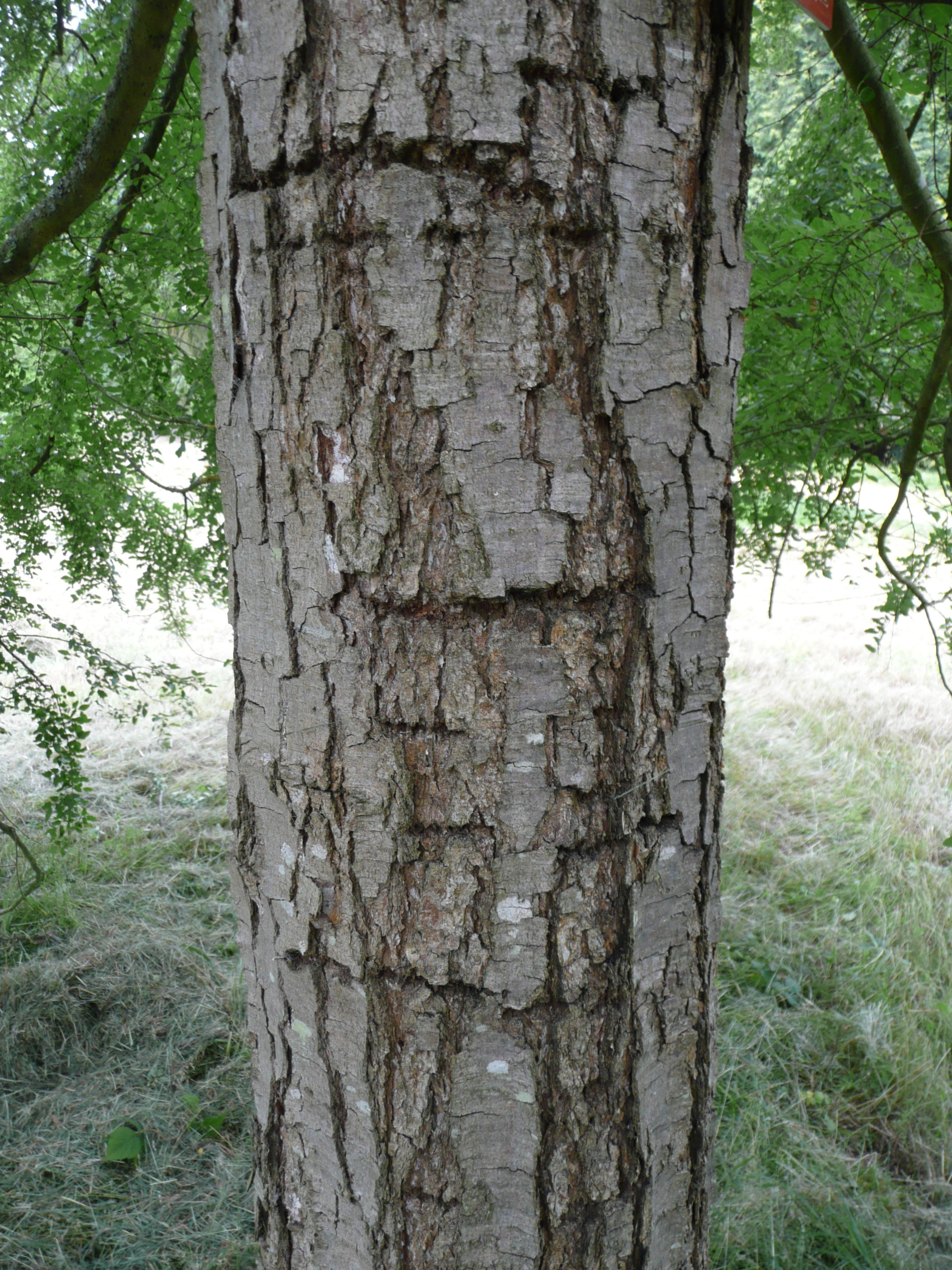 Nothofagus obliqua in the Arboretum de Chèvreloup in Rocquencourt Map: 48° 49' 49" N 2° 06' 42" E